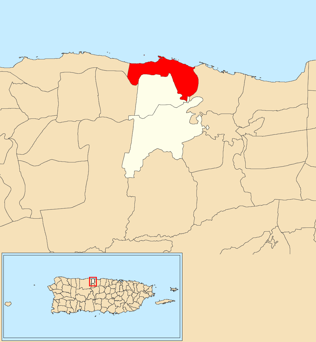 Palmas Altas, Barceloneta, Puerto Rico locator map